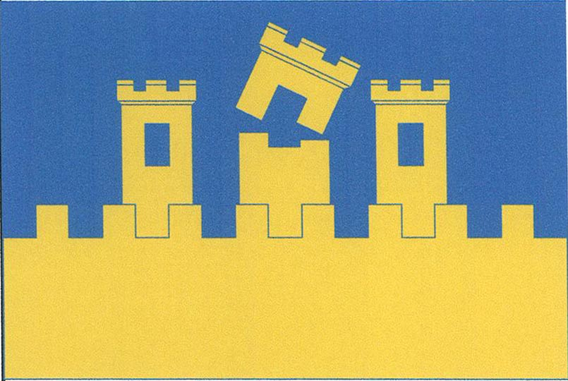 Flag of Týnec, Břeclav District